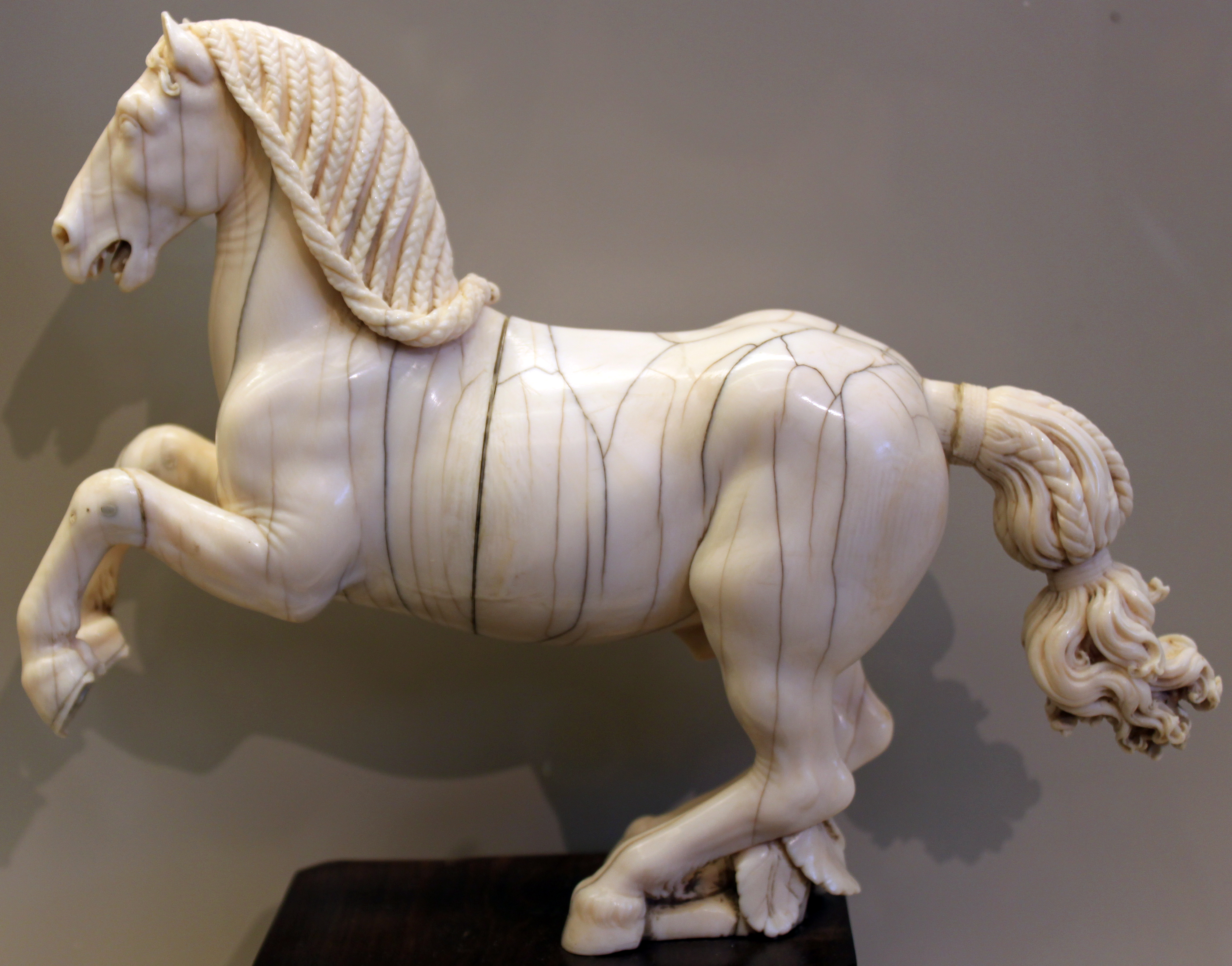 Leonhard Kern (1588–1662) DescriptionGerman sculptorDate of birth/death 2 December 1588 14 April 1662Location of birth/death Forchtenberg Schwäbisch HallAuthority control : Q896084 VIAF: 32791467 ISNI: 0000 0000 6676 3394 ULAN: 500010178 LCCN: nr91008529 WGA: KERN, Leonhard WorldCat creator QS:P170,Q896084 Mounting Horse, 1642, Bodemuseum Berlin, Inv. 2993